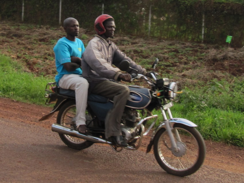 Boda-boda. Uganda, somewhere on A109 Road, between Jinja and Malaba